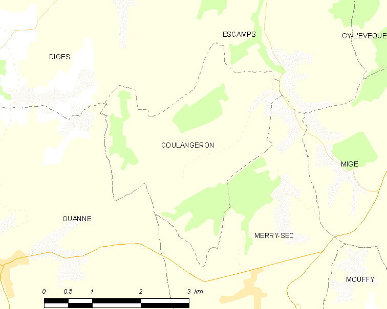 Map of French municipality Coulangeron